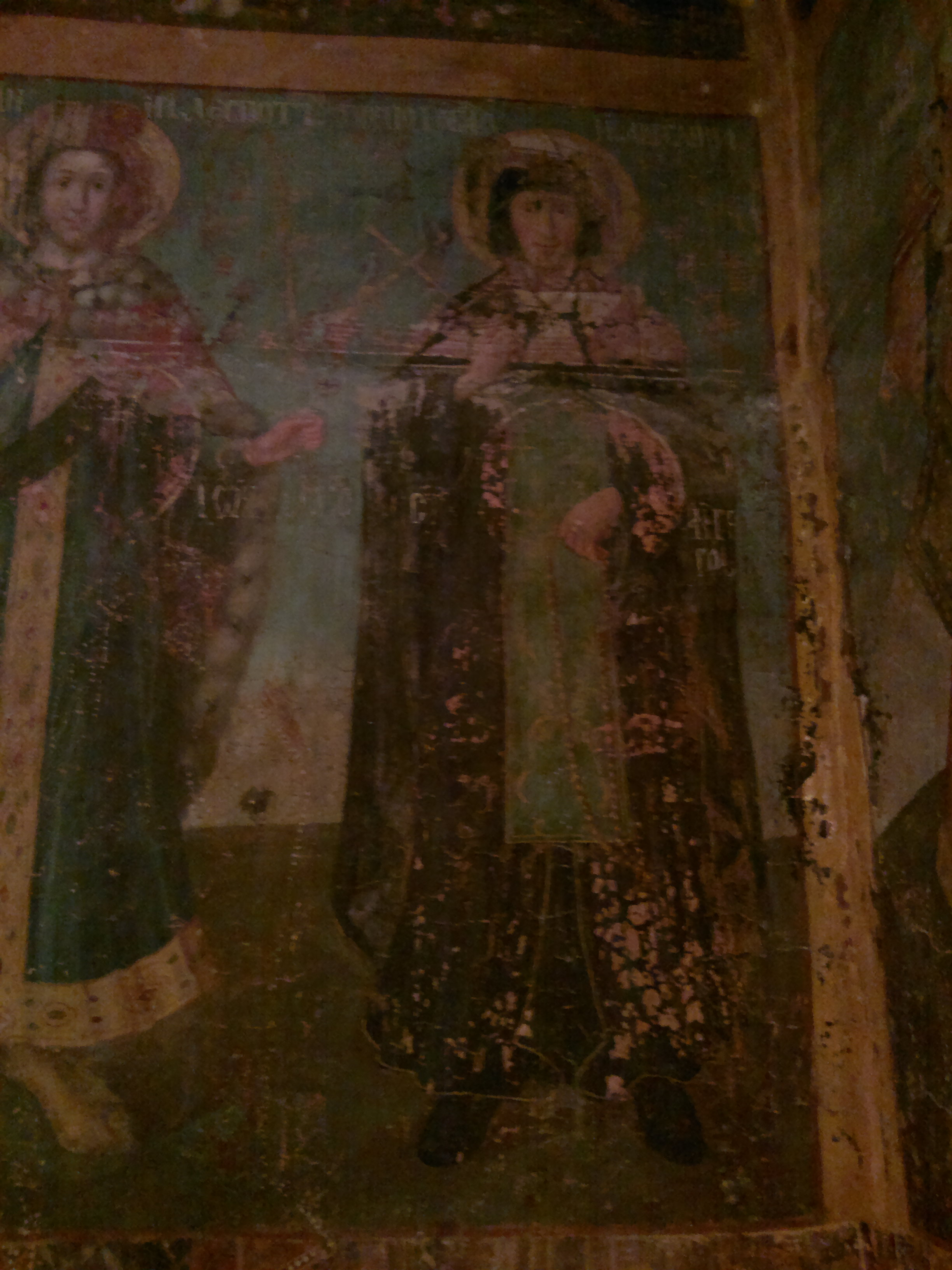 frescoe of Angelina